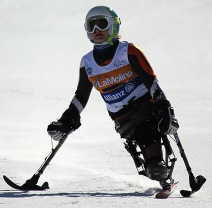 IPC Alpine World Championships in La Molina, Spain. Super-G event on Thursday. Women's sit skier Anna-Lena Forster of Germany.